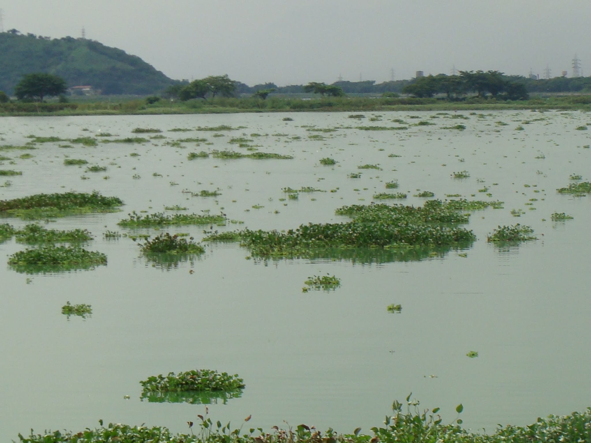 Tayguayguay Lake, Aragua State, Venezuela